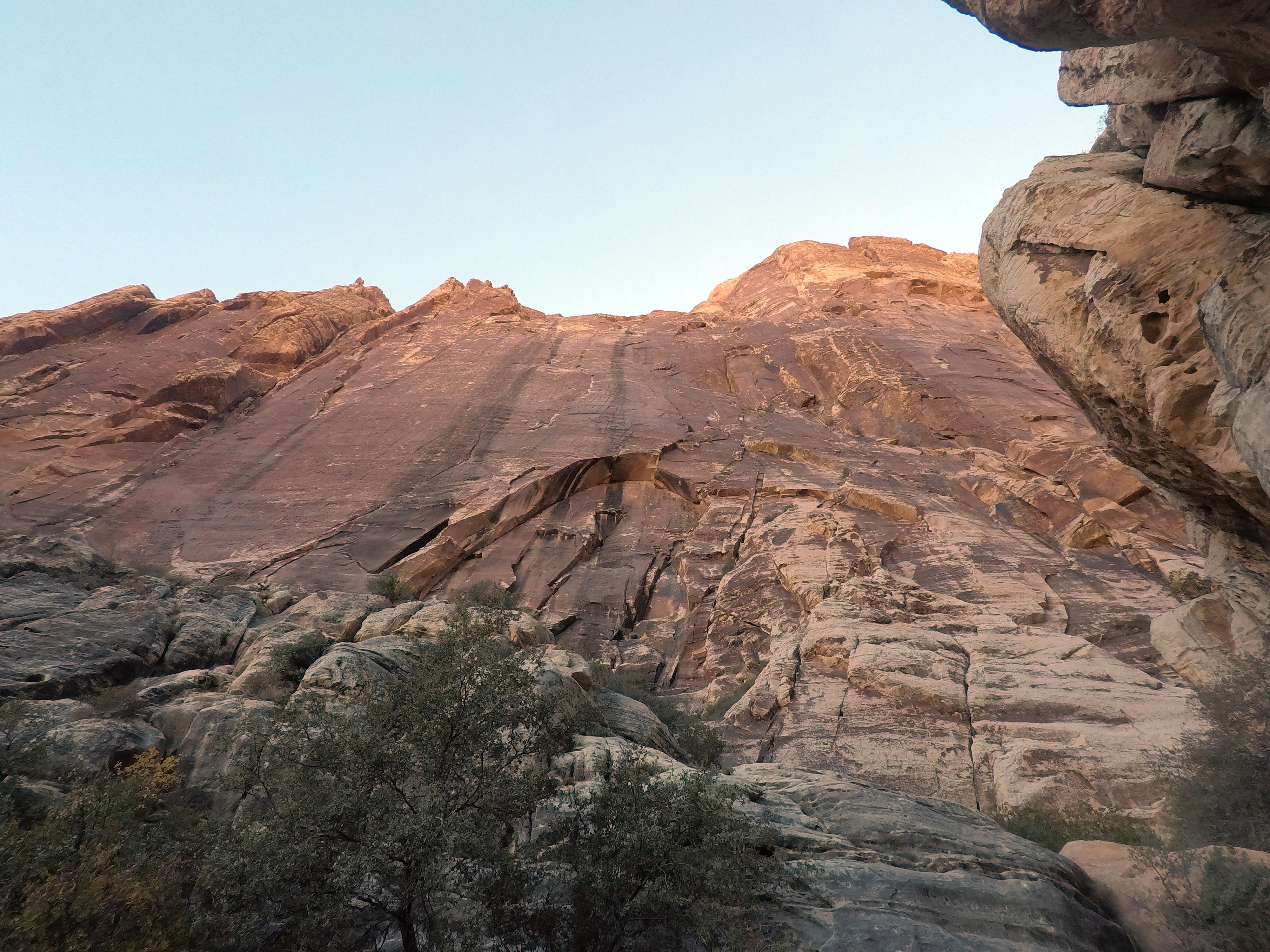 Red Rock Canyon National Conservation Area: Black Velvet Wall.